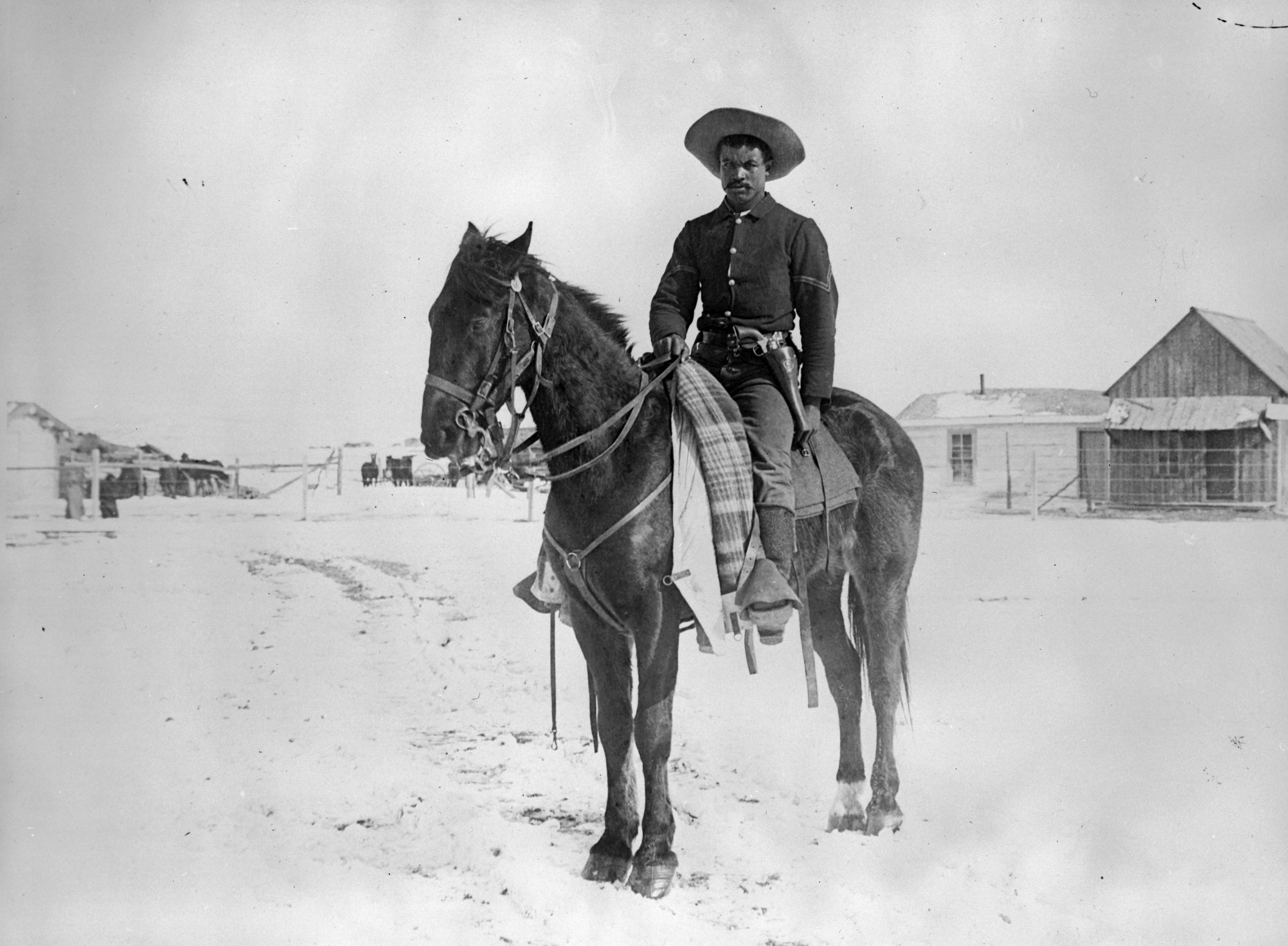 An Afro-American Corporal, in the 9th Cavalry. Snow covers the ground 1890.